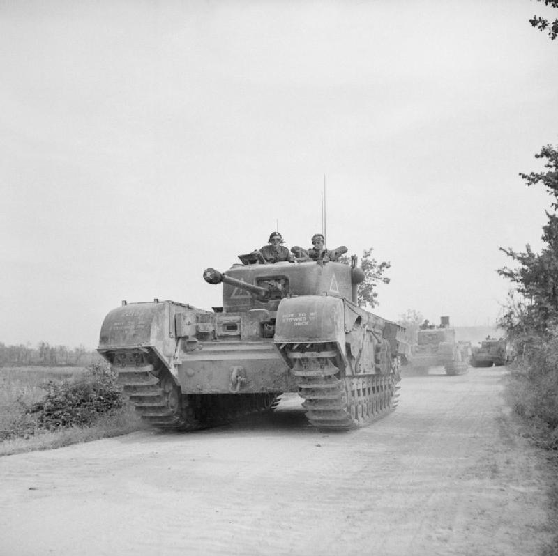 IWM caption : Churchill tanks of 25th Tank Brigade going forward to support 1st Canadian Division, Italy. This was the first time Churchills had been used in Italy.